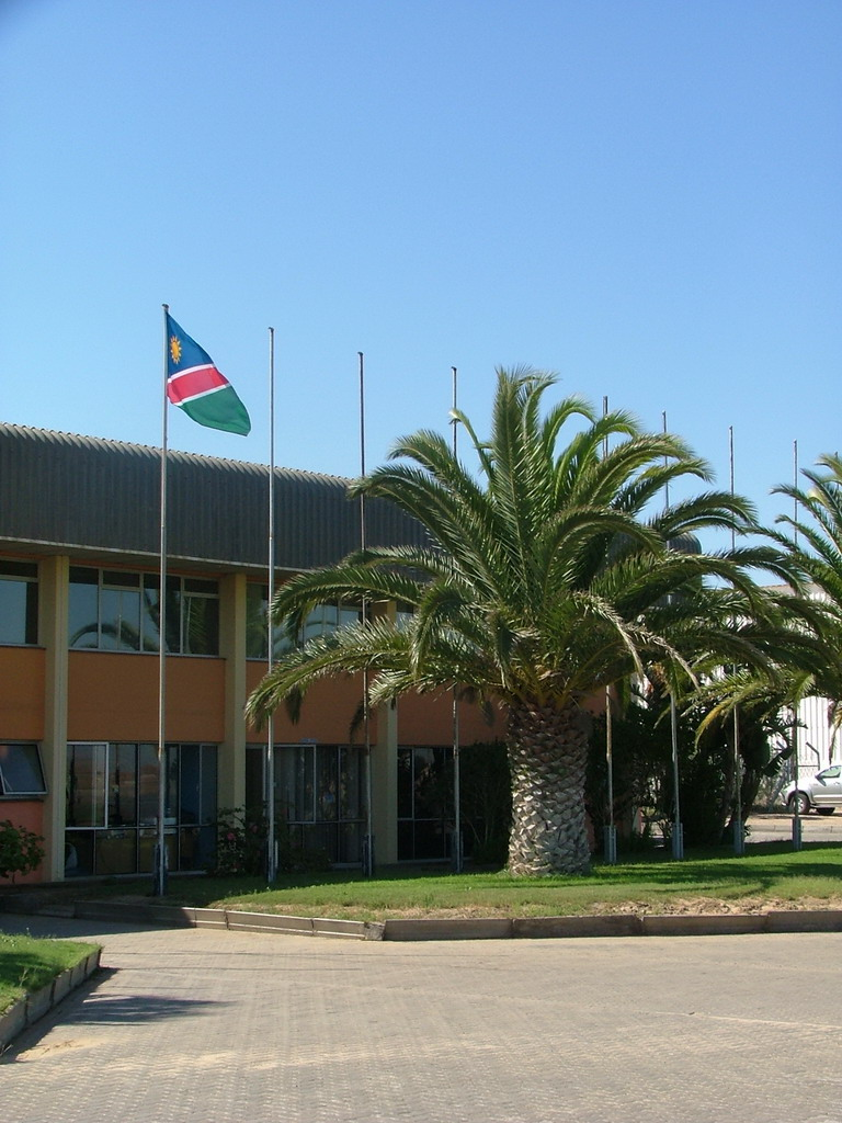 Walvis Bay Airport